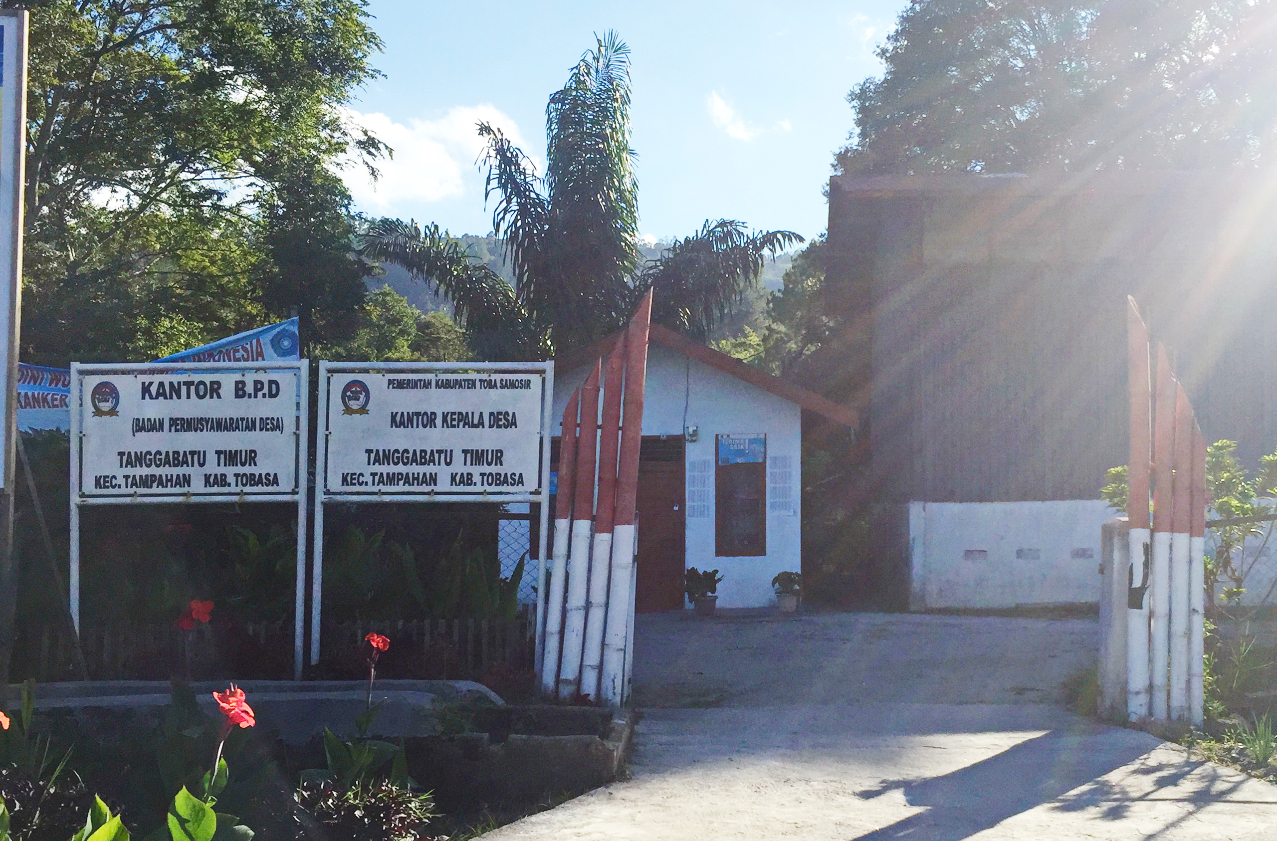 Office of Tangga Batu Timur, Tampahan, Toba Samosir